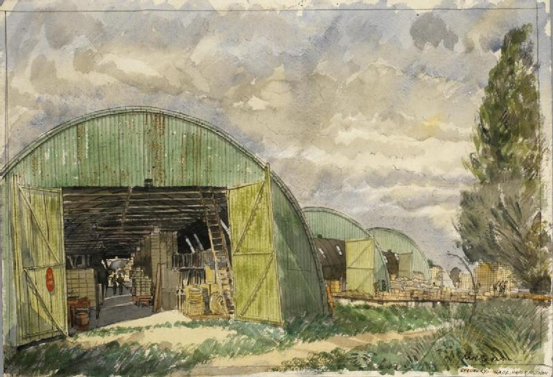 Recovery Stores at a Raoc Depot, Feltham image: A row of long, green corrugated iron sheds with their doors open. There are sacks and boxes of supplies outside each shed. The interior of the shed nearest the viewer is visible and we can see down the central aisle of boxes and piles of rope and through the doors on the other end of the shed.